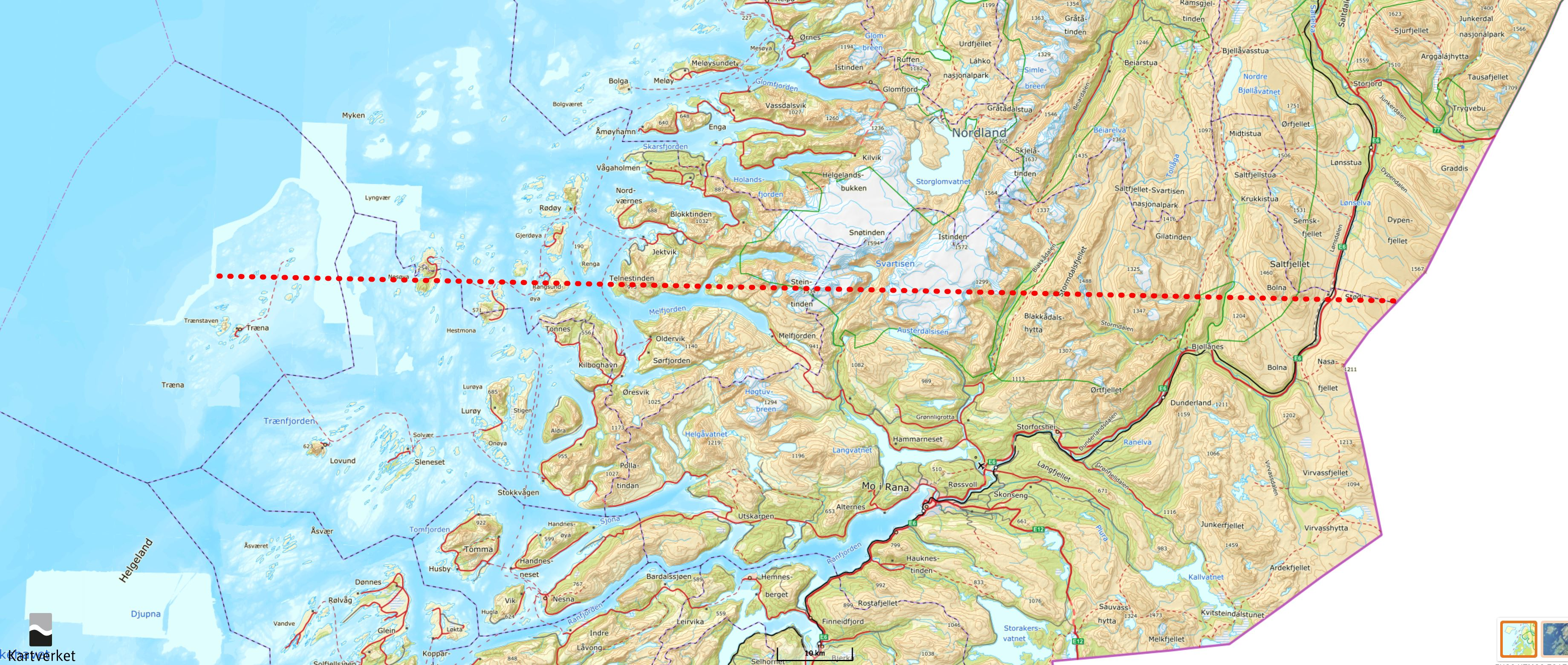 Polar circle passing through Norway